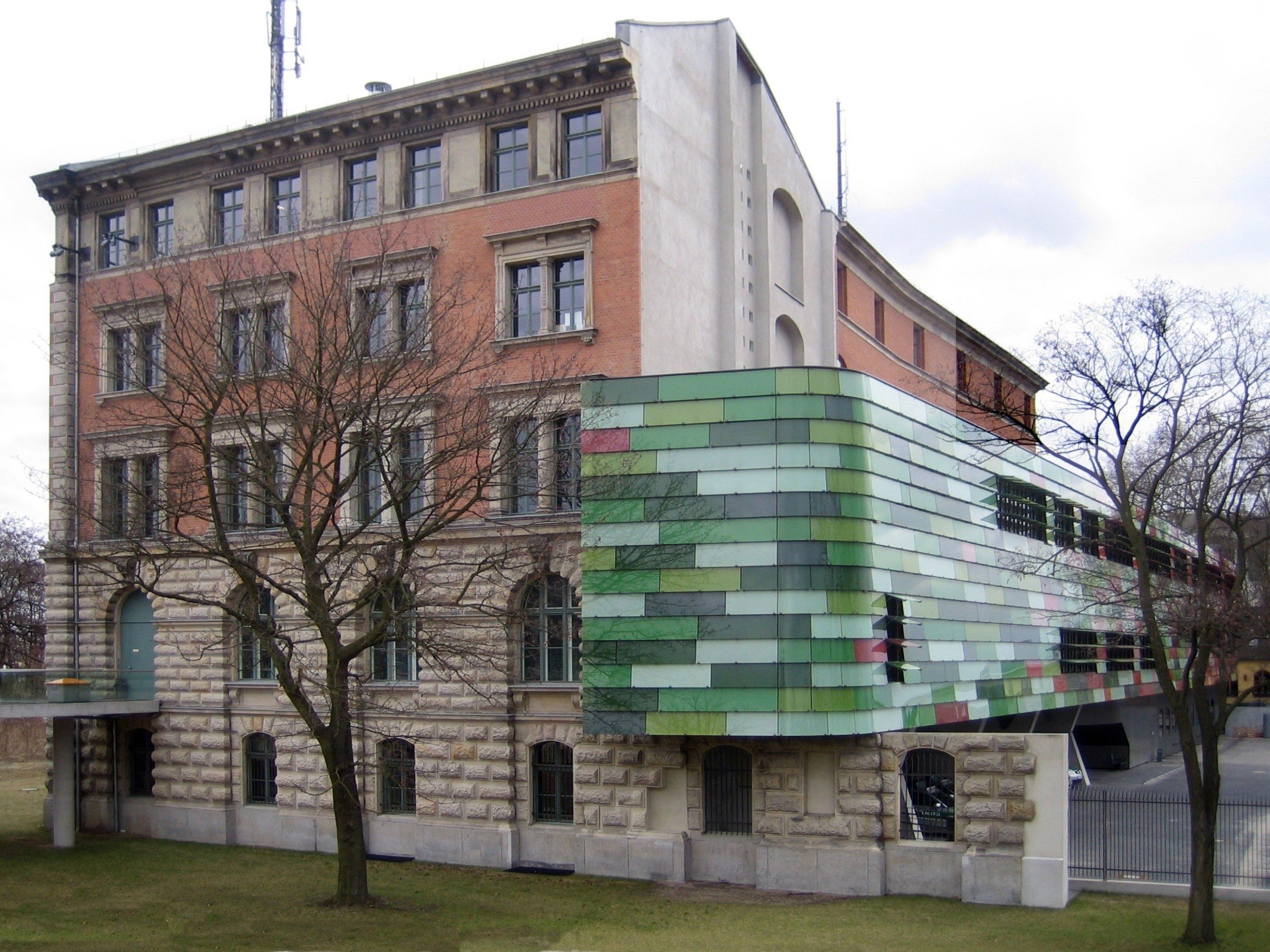 Berlin, Moabiter Werder. Police- and firebrigade-station.